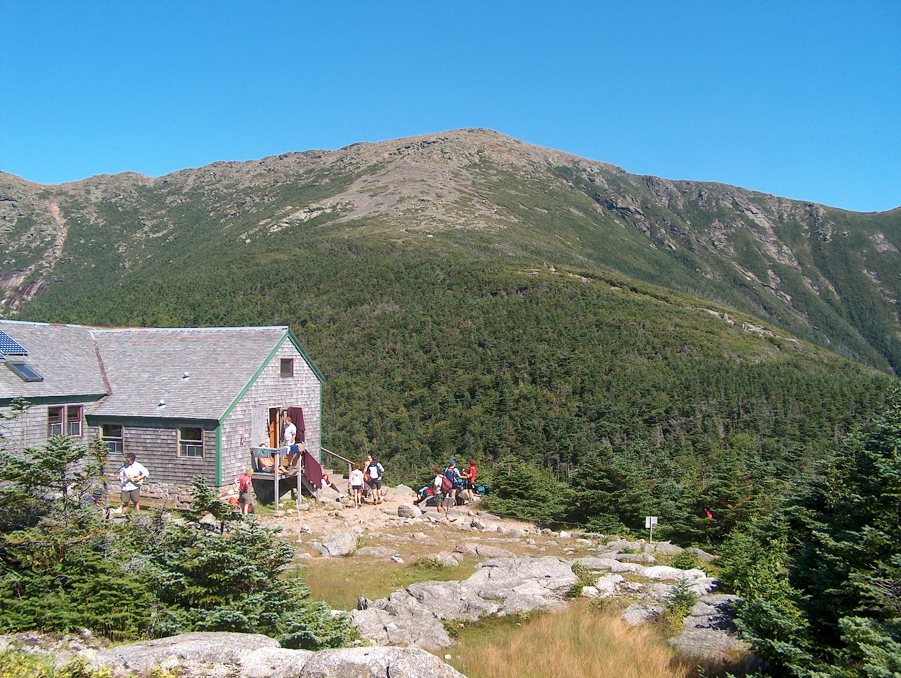 Mount Lafayette and the Greenleaf Hut in the White Mountains of New Hampshire. Photo by Ken Gallager, August 2004.